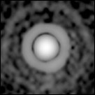 Image of a star (R Leonis). Primary diffraction maximum reduced by nulling.